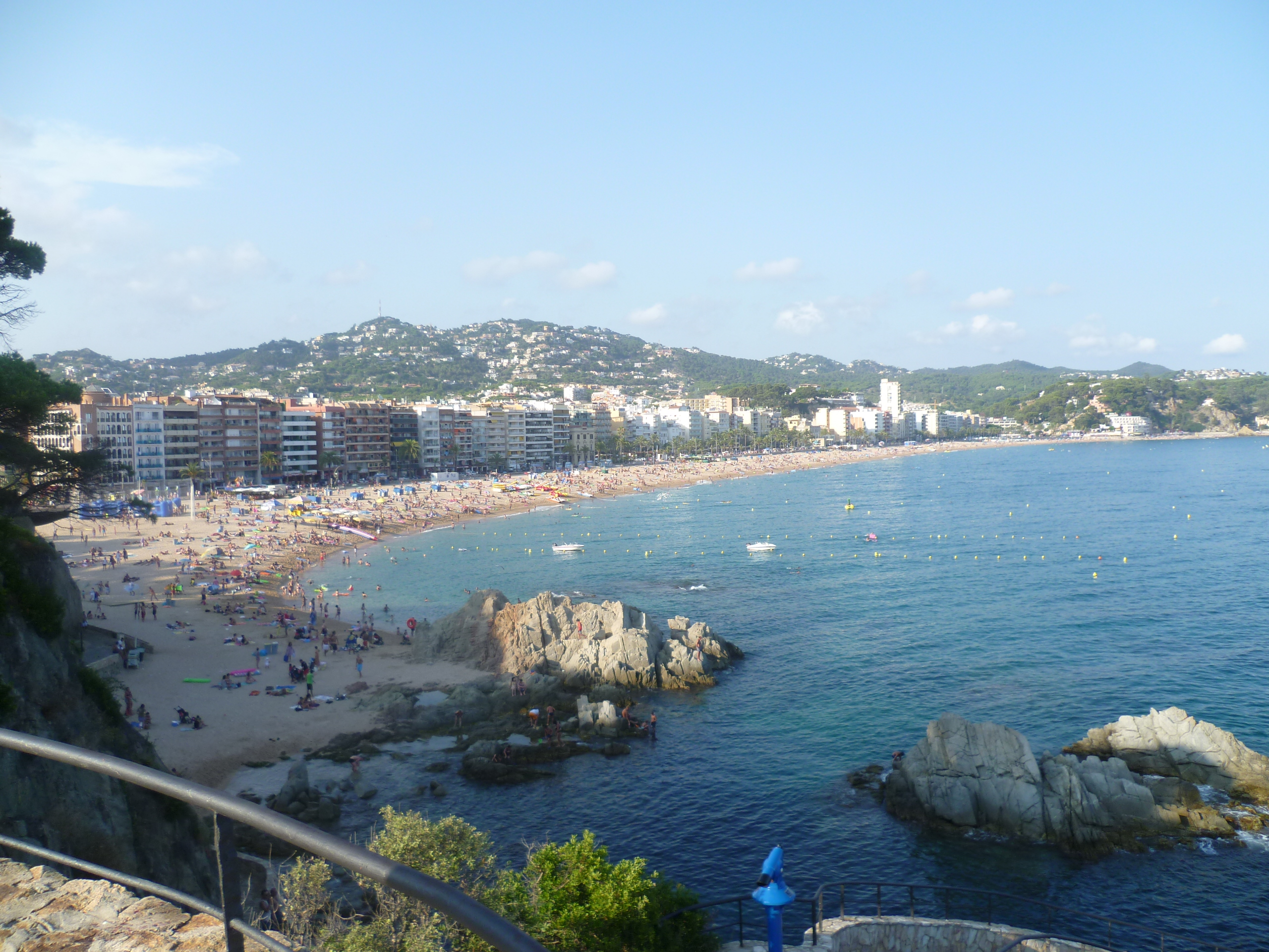 Lloret de Mar, the beach